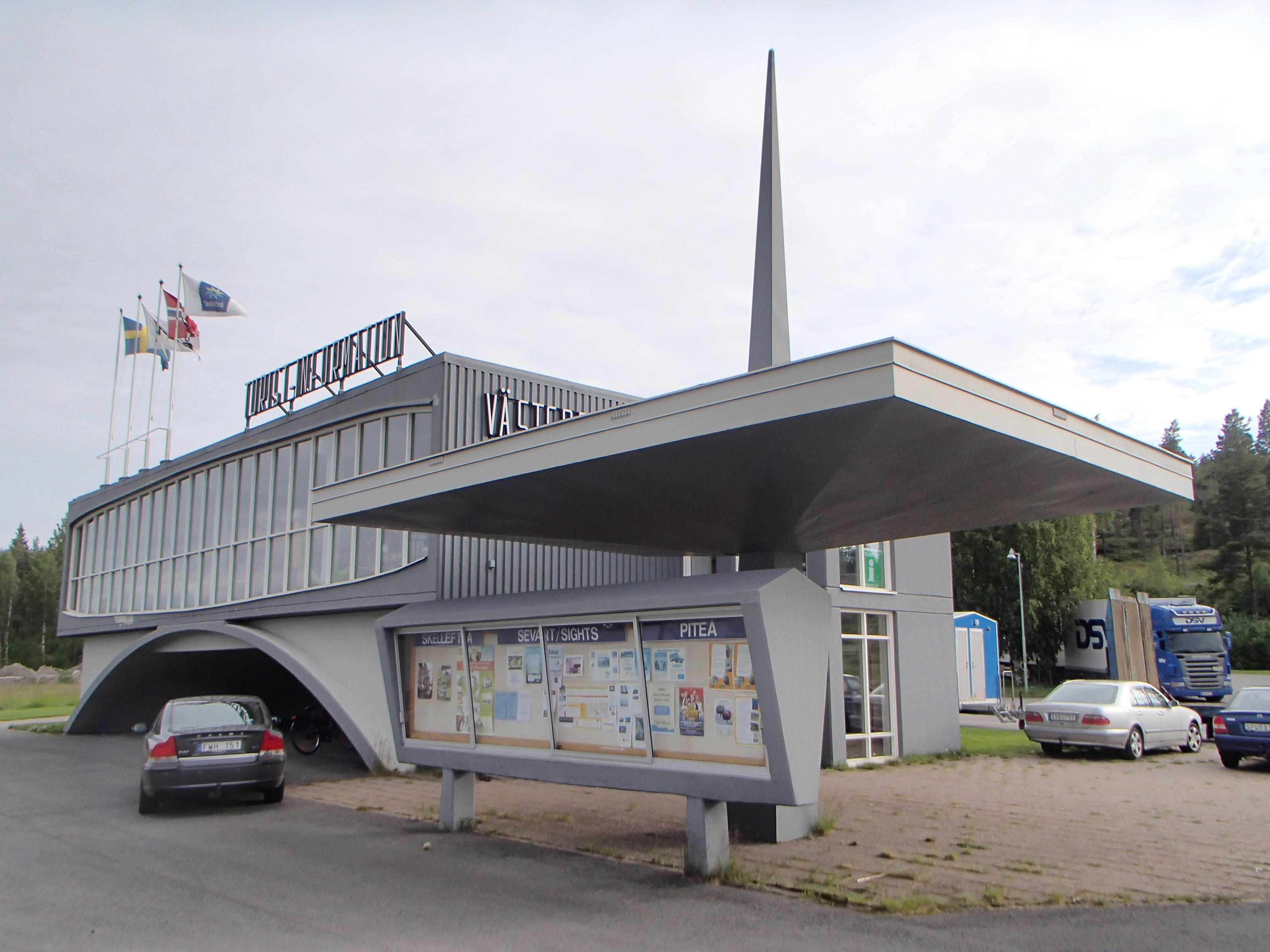 The tourist information office building of "Jävre turiststation" at Jävrevägen 186 in Jävrebyn, Piteå Municipality, viewed from north